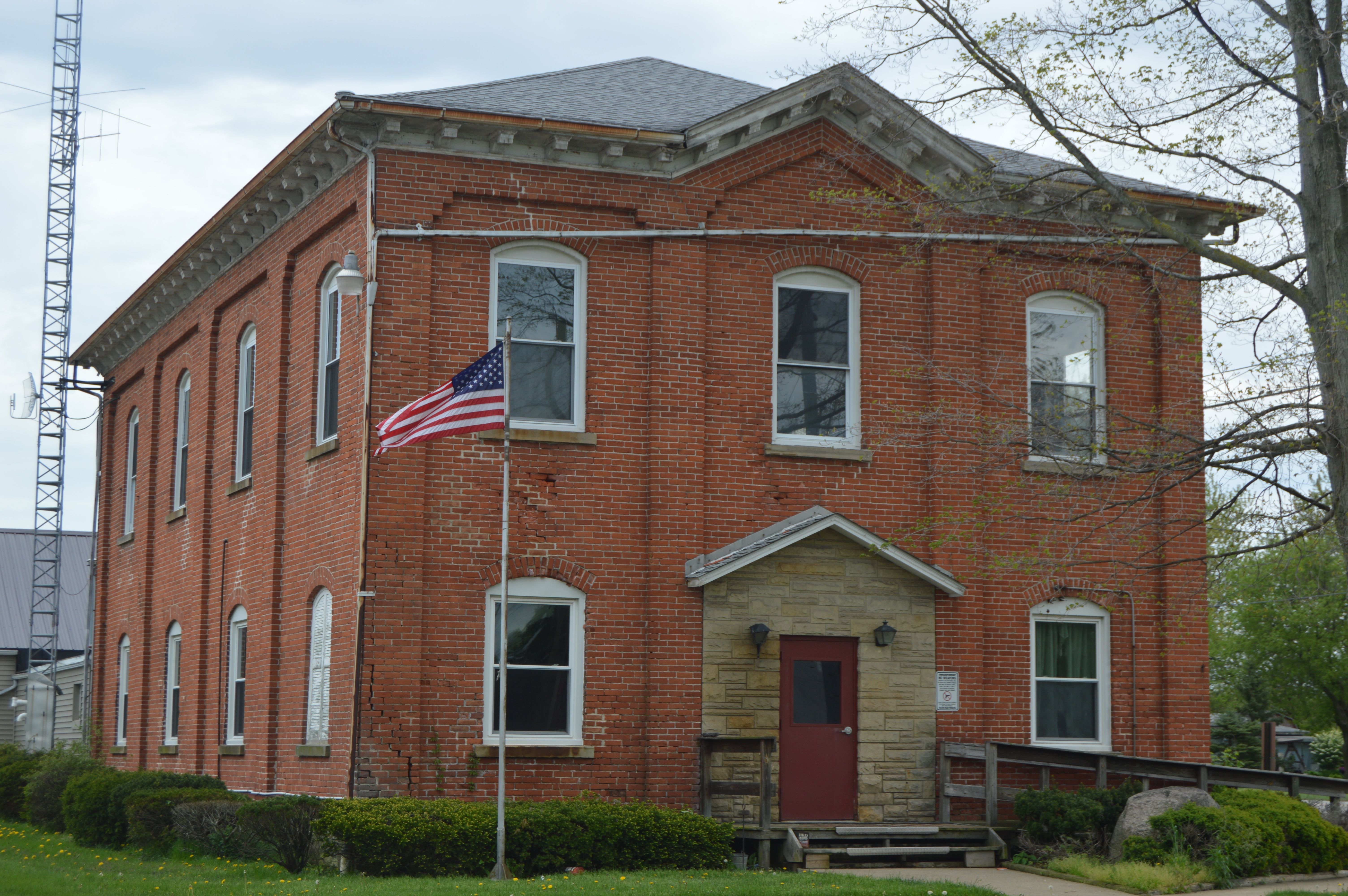 Front and northern side of the Townsend Township hall, located at the junction of U.S. Route 20 and Hartland Center Road south of Collins in Townsend Township, Huron County, Ohio, United States.